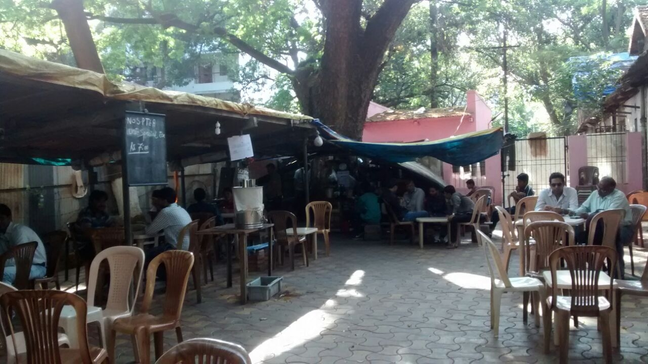 Canteen at Ranade Institute